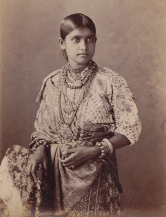 Traditional Kandyan womens attire.